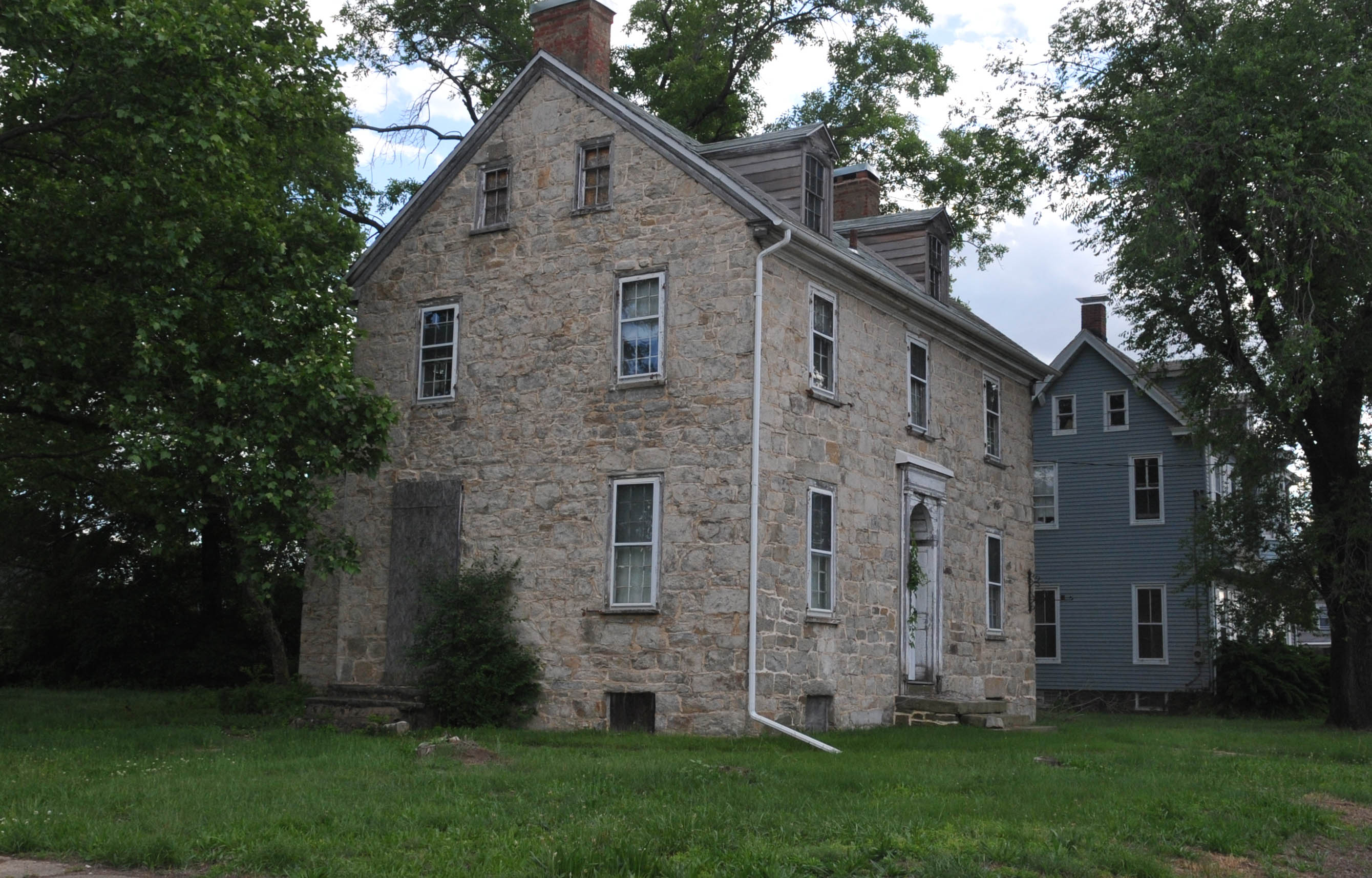 THE DATE IN THE EAST GABLE OF THIS OLD HOME IS 1810, BUT THE REAR SECTION APPEARS TO BE OF A MUCH EARLIER DATE. IT IS CALLED THE PAUL HOUSE AFTER THE PAUL FAMILY WHO SETTLED PAULSBORO IN 1685 AND WHO PROBABLY BUILT THE ORIGINAL BACK PORTION OF THE STRUCTURE.